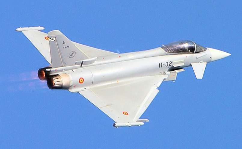 altered file of this image